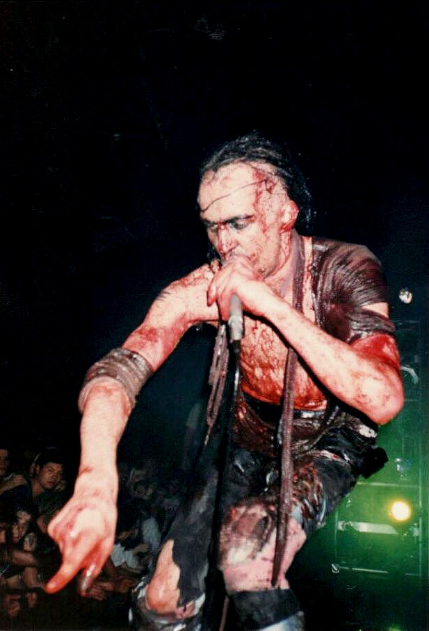 Number's Houston 10.12.90